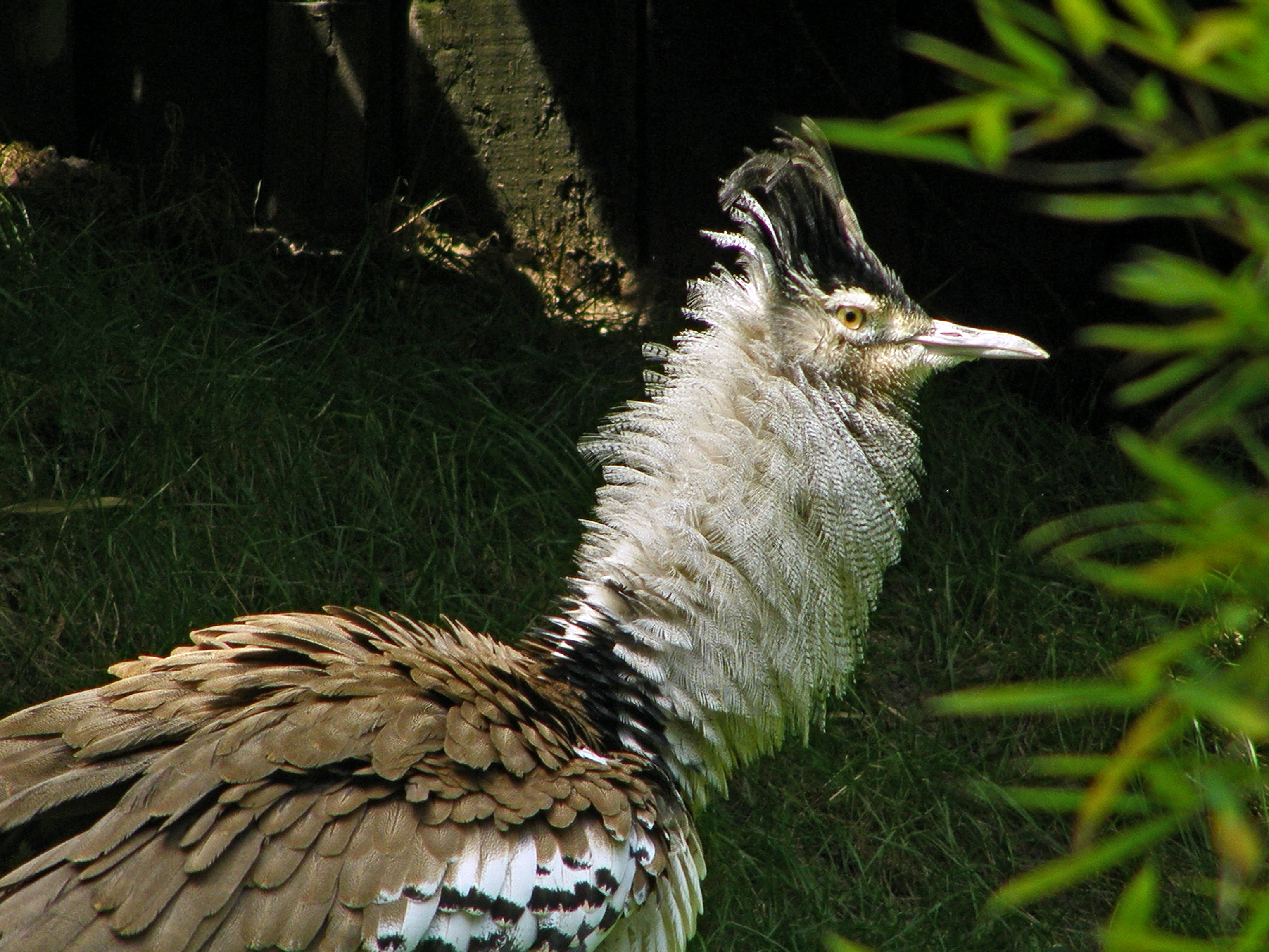 Kori Bustardeffe indruk maken